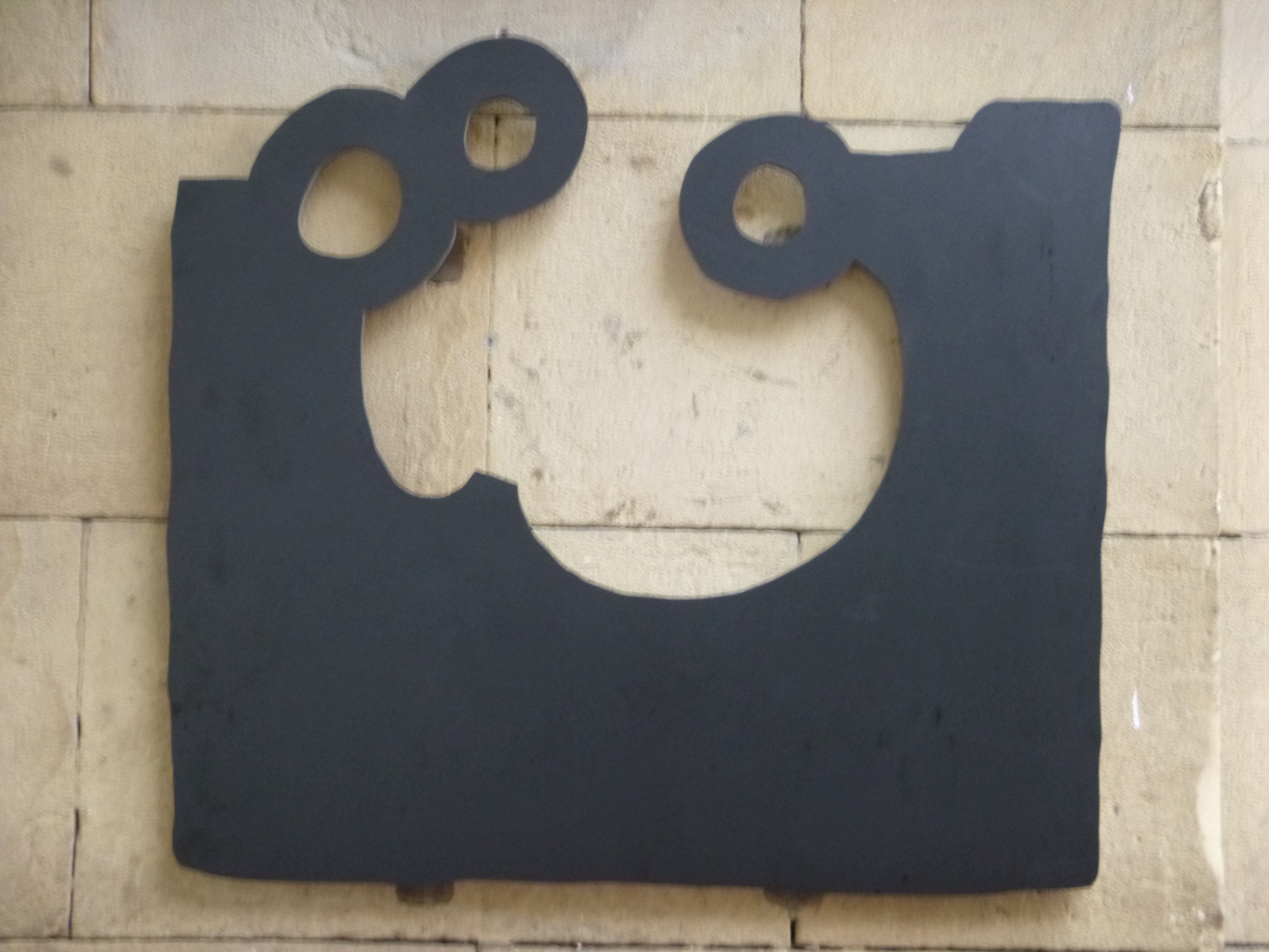 Logo, Donostia 2016.